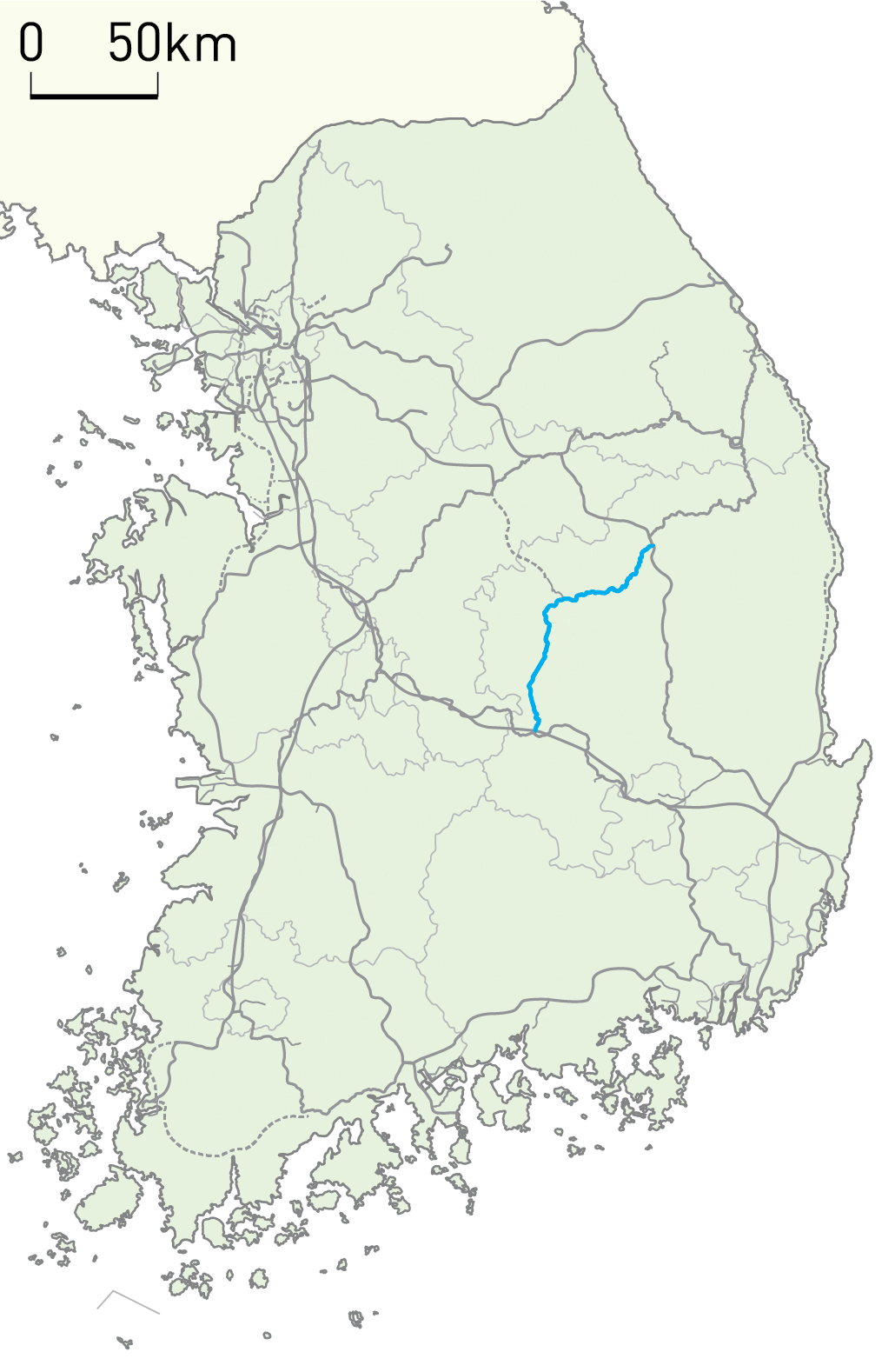 Korail Gyeongbuk Line Routemap